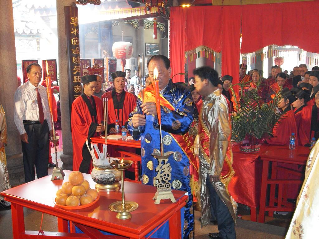 Taoist ritual at the Xiao ancestral temple of Chaoyang, Shantou, Guangdong.